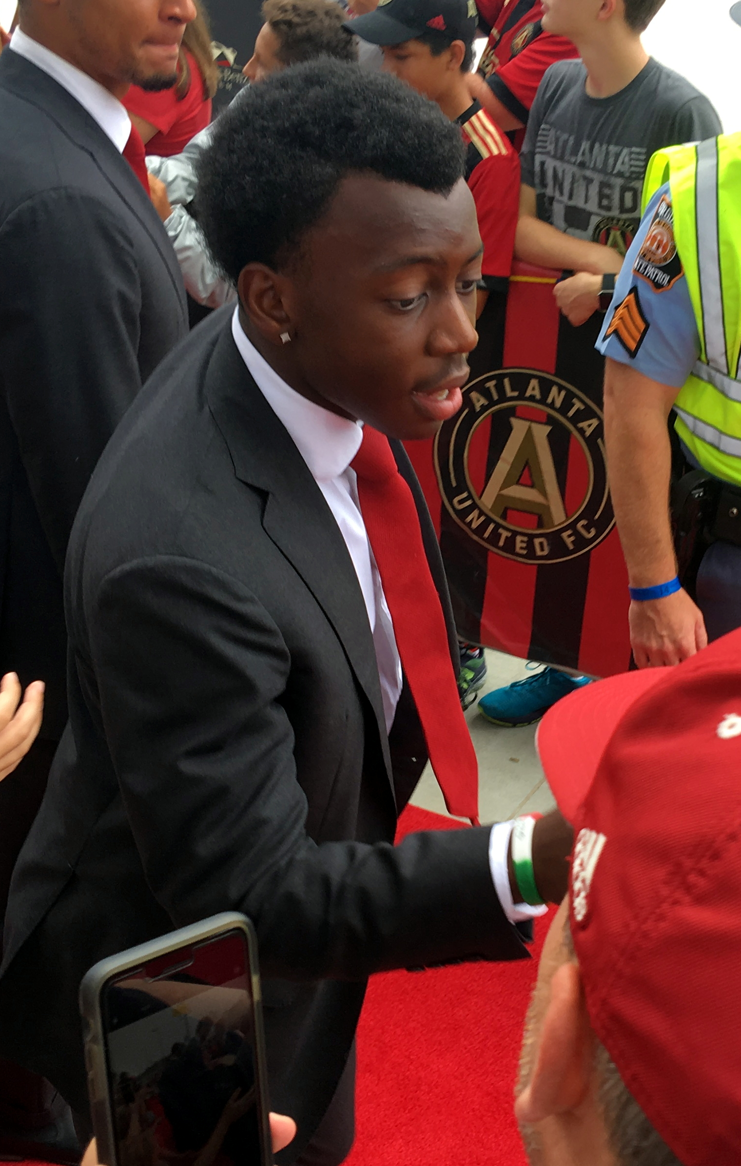 George Bello after signing the Golden Spike for Atlanta United on August 19, 2018